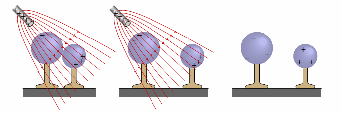 Electrostatic induction